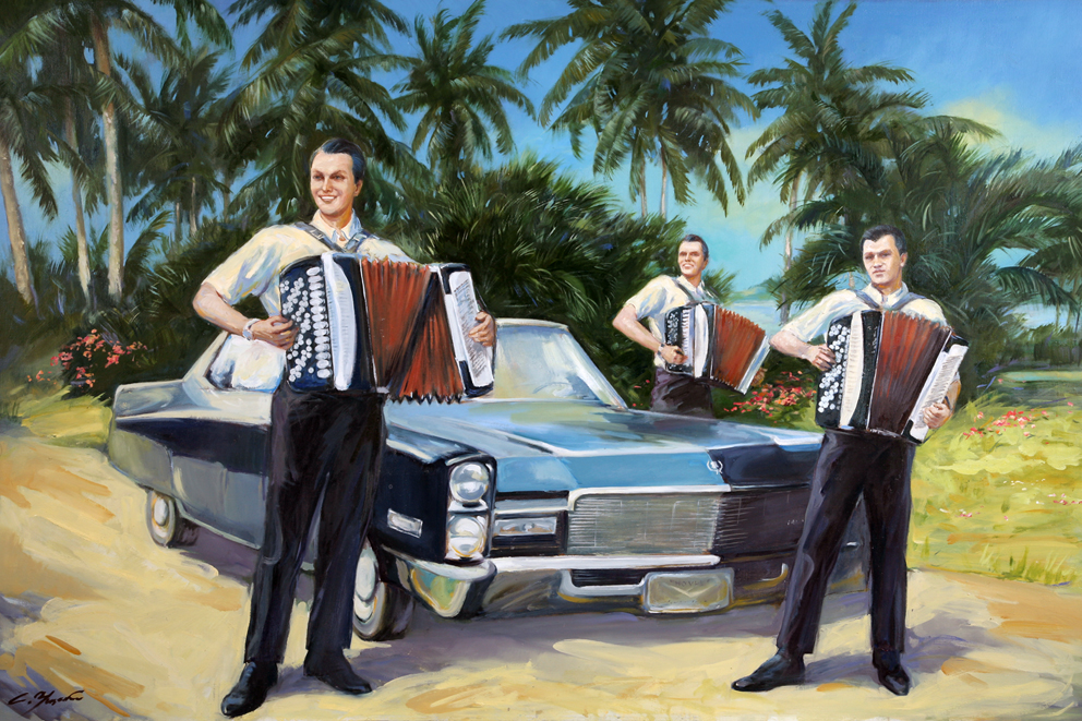 A painting by Sergei Ushtenko from the Laiho Trio on concert tour in America. Oil 78 x 118 cm. Photo by Iikka Perälä.